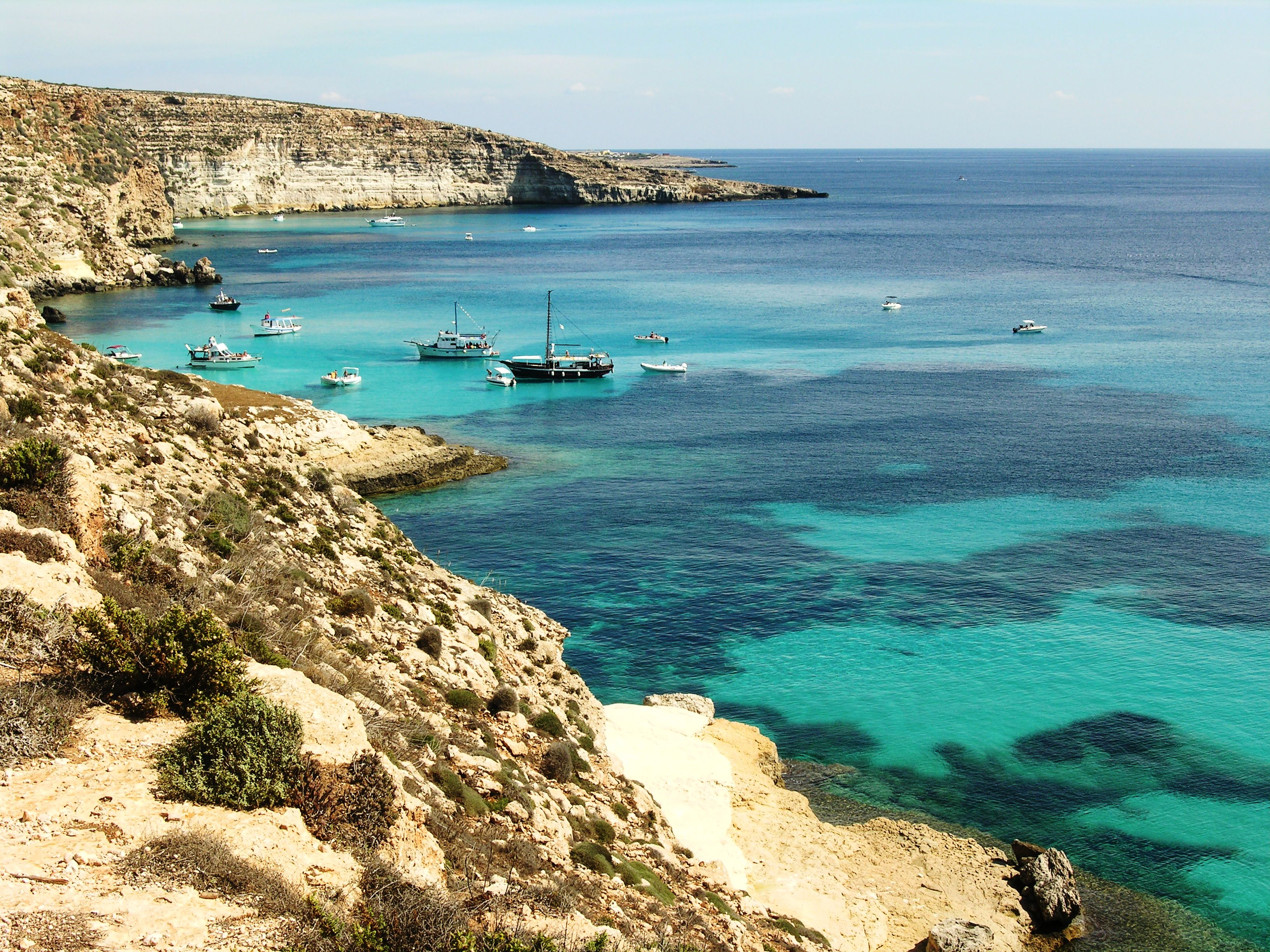 Isle of Lampedusa Baia dei Conigli